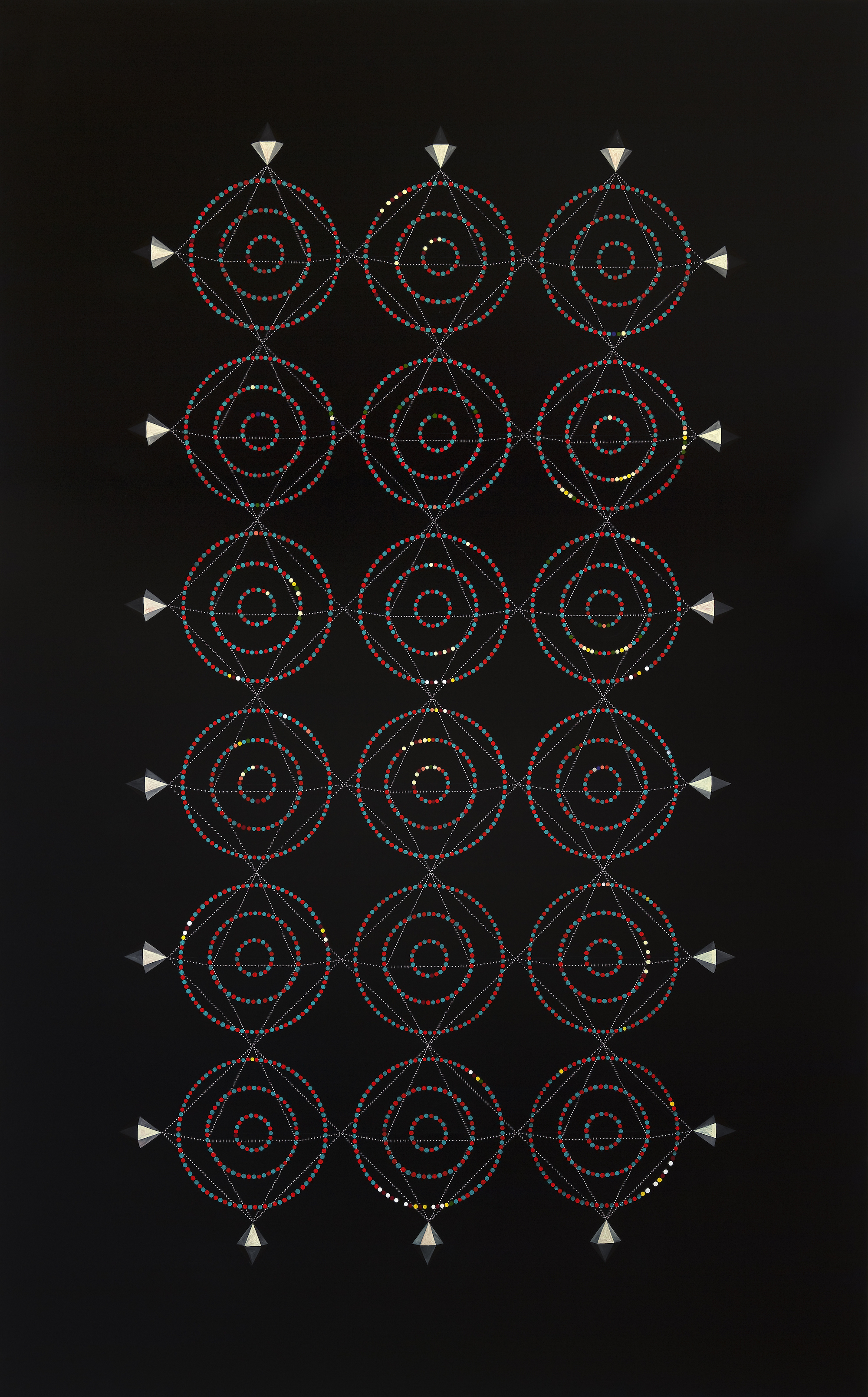 Grace DeGennaro, Serape, 2010, oil on linen, 96 x 60""